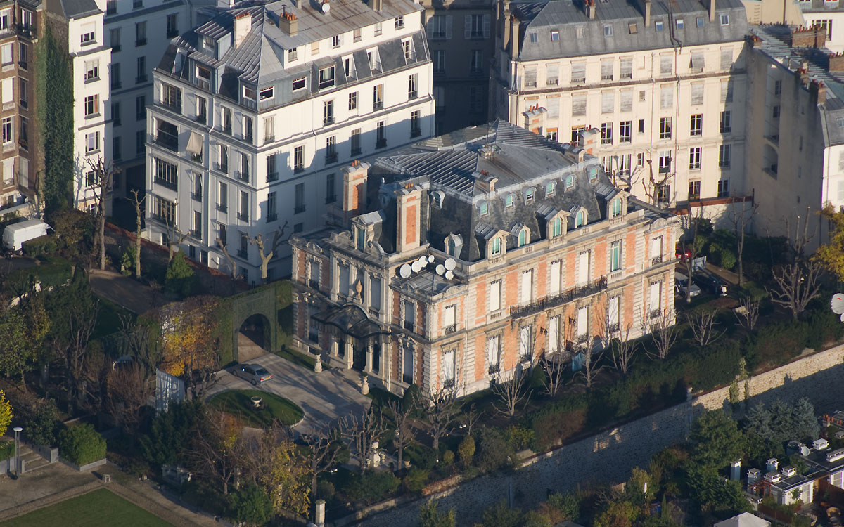 Mansion at 5, place d’Iéna, in Paris (16°)